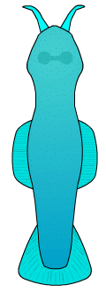 This is an illustration of the Cambrian animal named Amiskwia